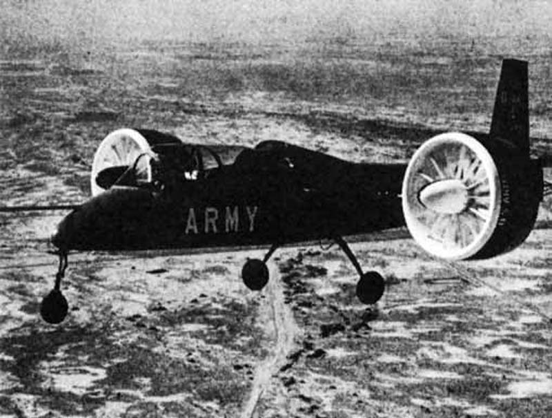 Doak 16/VZ-4DA with Wingtip mounted Ducted Fans - Vertical Take-Off and Landing (VTOL) aircraft